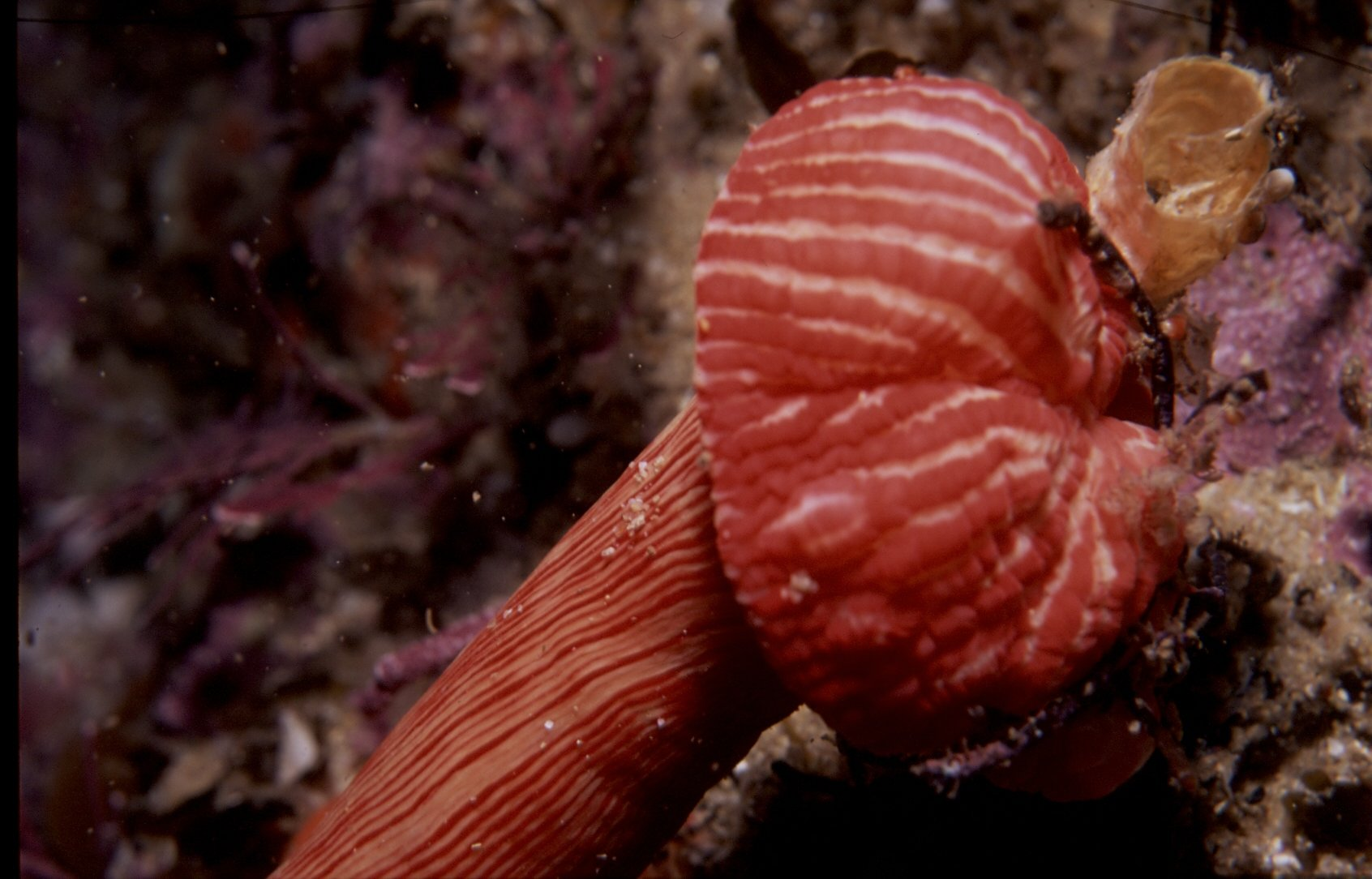 a close up photograph of the inflated locomotive foot spinnaker anemone, Korsaranthus natalensis taken off Eerste Rivier South Africa in about 20m of water using a Nikonos V camera